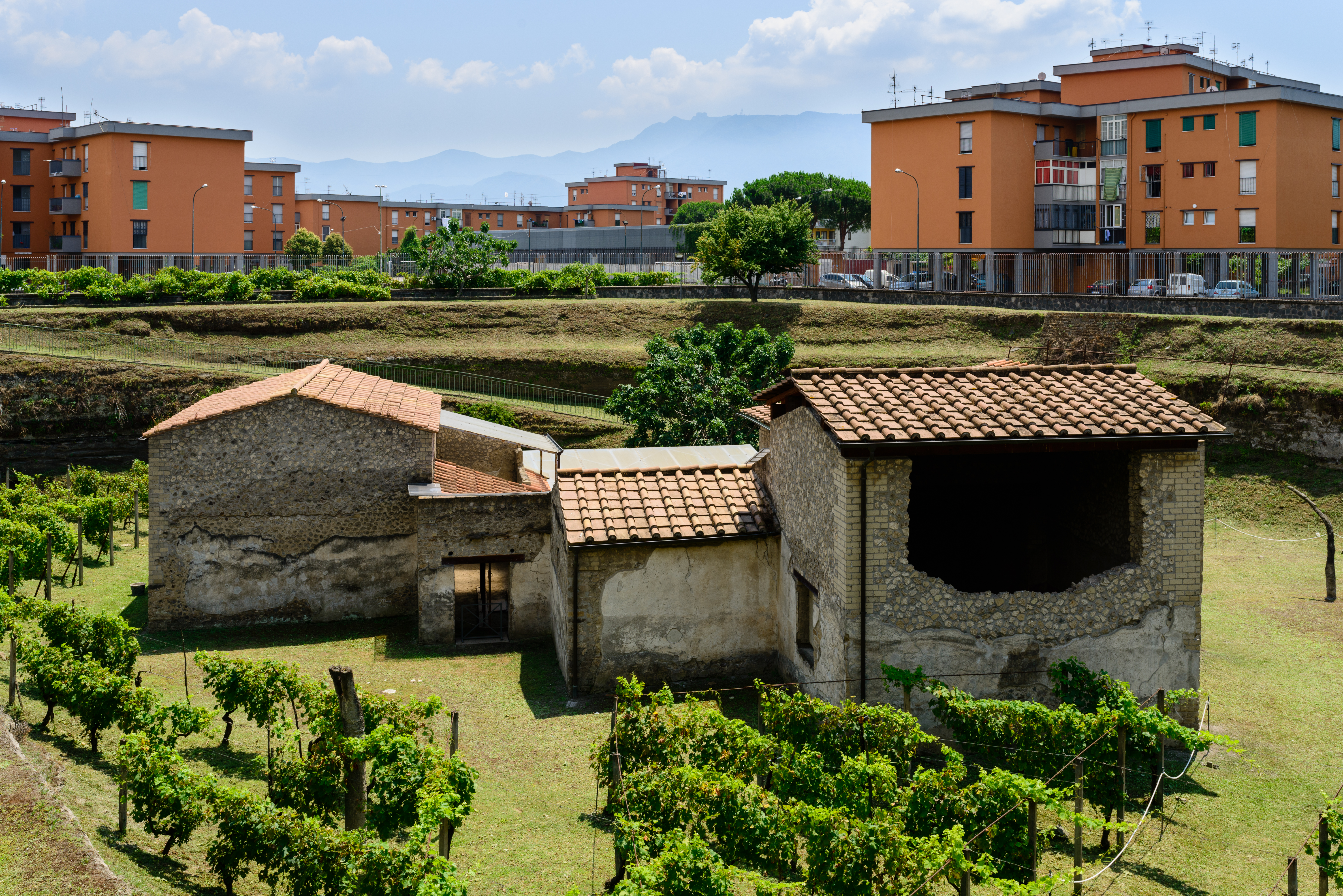 Ancient Roman villa Regina, Boscoreale, Campania, Italy.